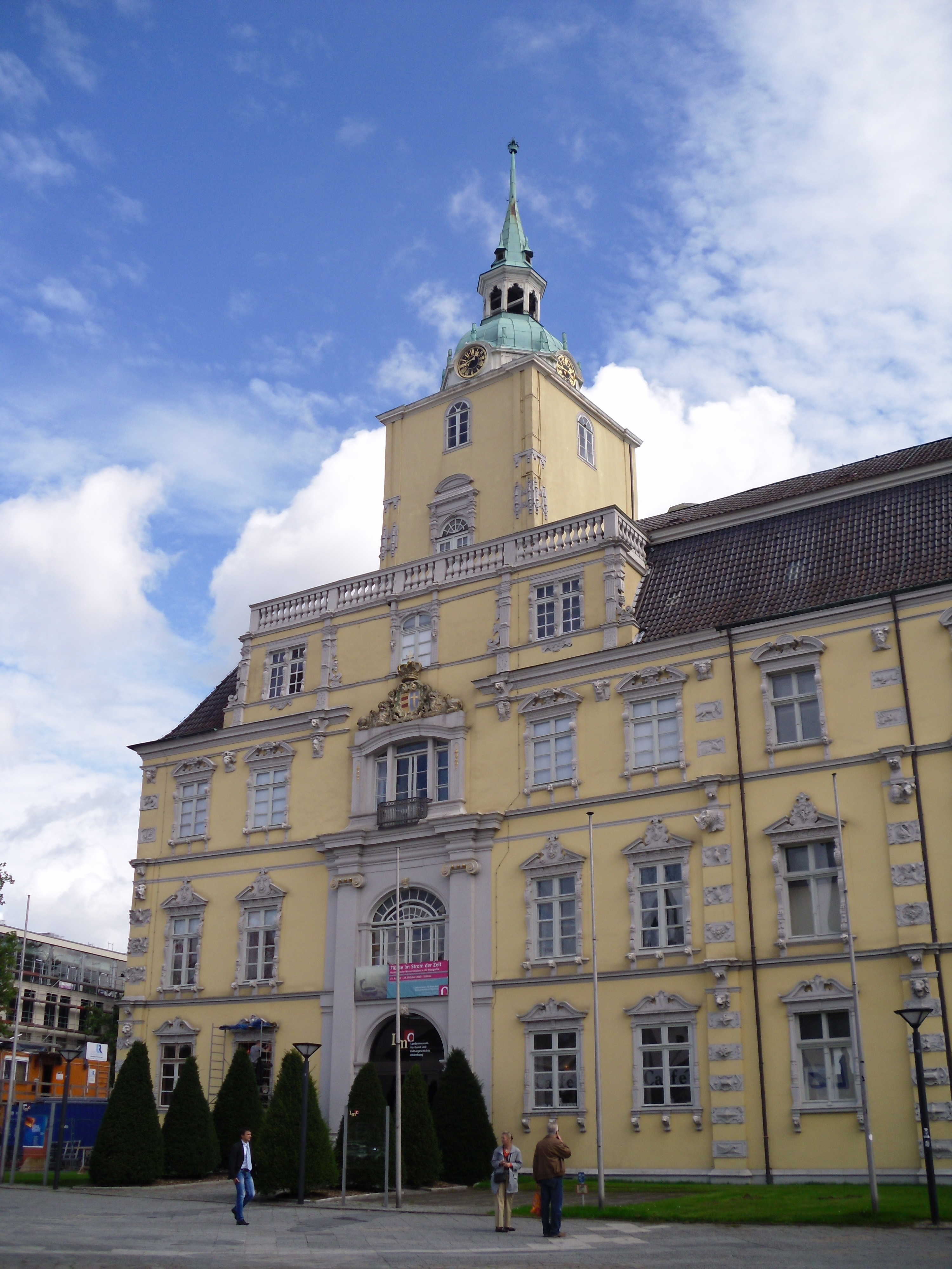 Oldenburg Castle